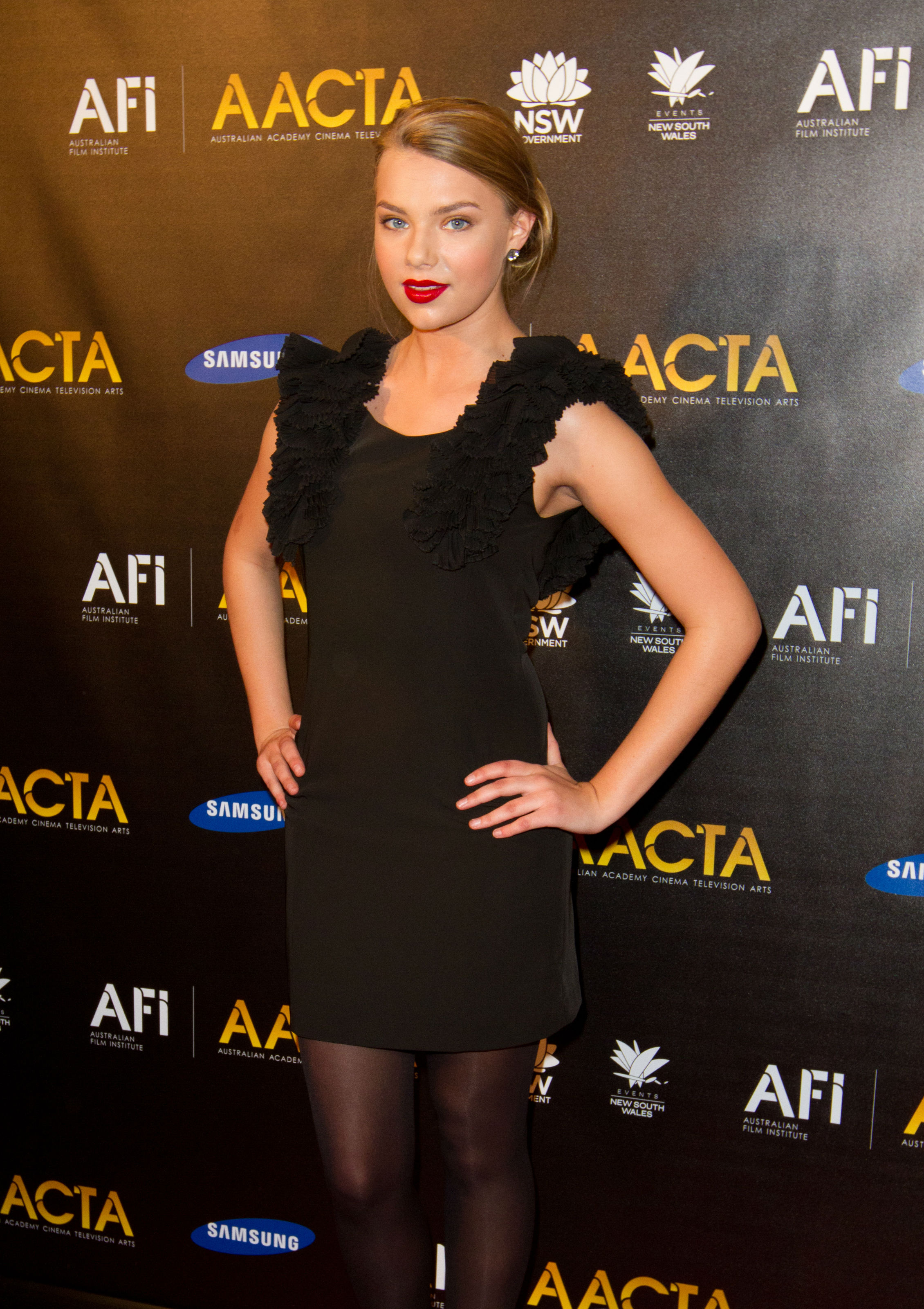 Australian actress Indiana Evans while attending an event hosted by AFI. Evans is pictured by photorapher Aaron Saye.